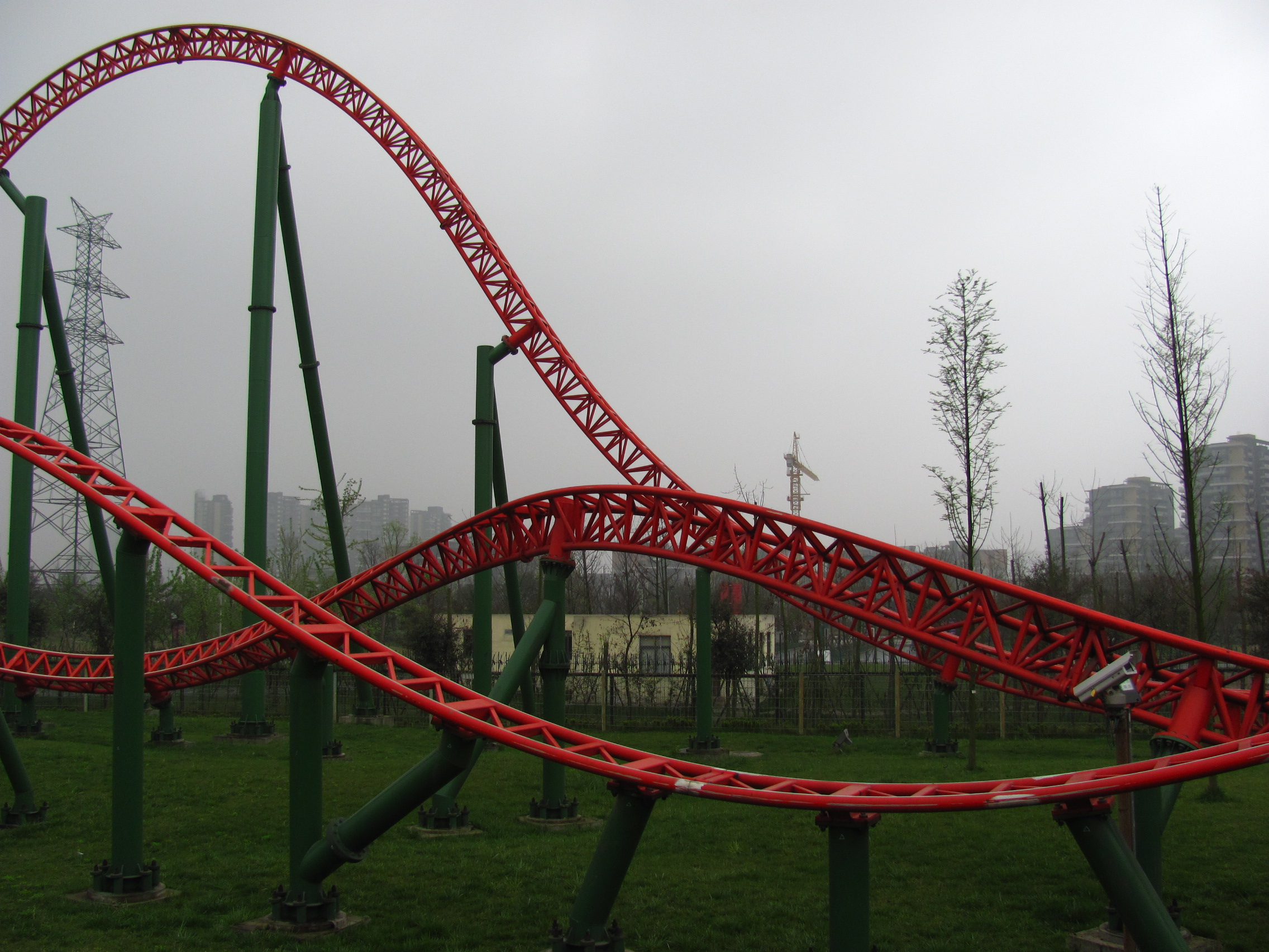 Dream of Mediterranean